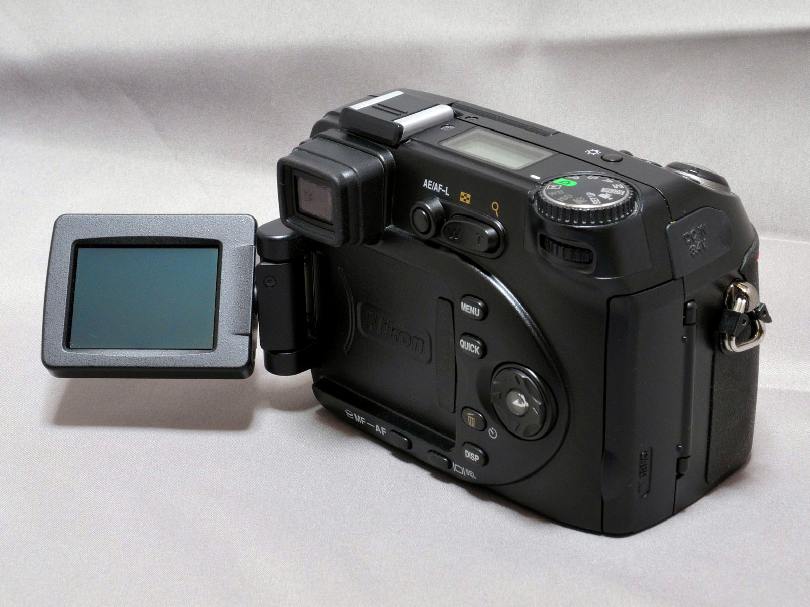 Nikon Coolpix 8400 backview